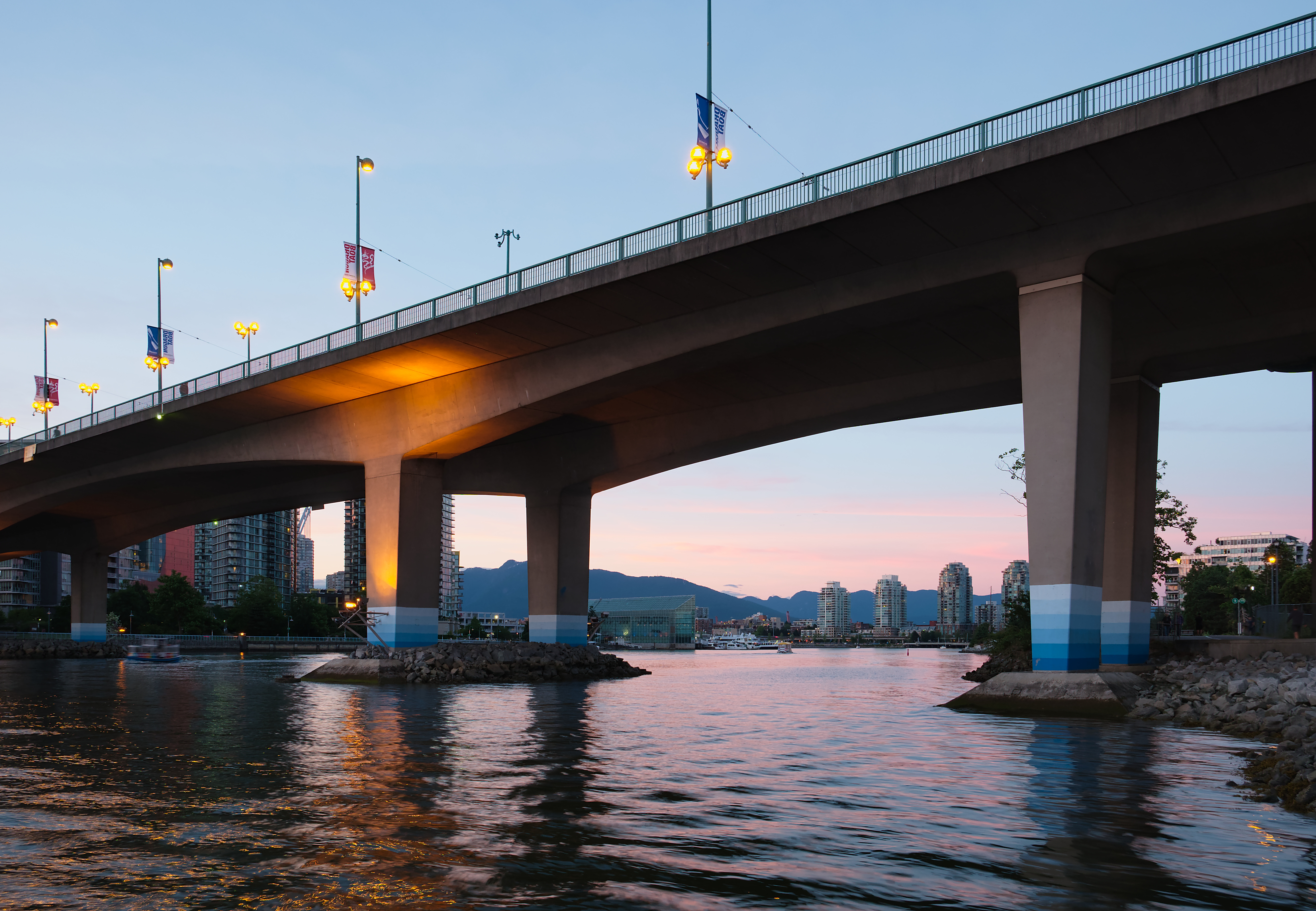 Cambie Street bridge viewed from the Spyglass Dock during civil twilight in Vancouver, BC